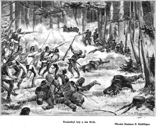 Battle of Svíb forest (epizode of Battle of Königgrätz) during Austro-Prussian War. An illustration to book Válka z roku 1866 v Čechách, její vznik, děje a následky (1866 War in Bohemia - its origins, events and consequences) by Servác Heller (1845 - 1922)